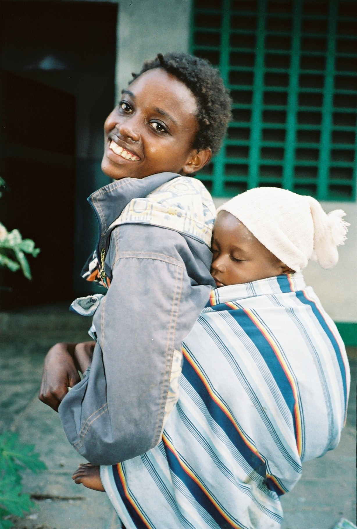 A young African woman carying child in a baby sling.